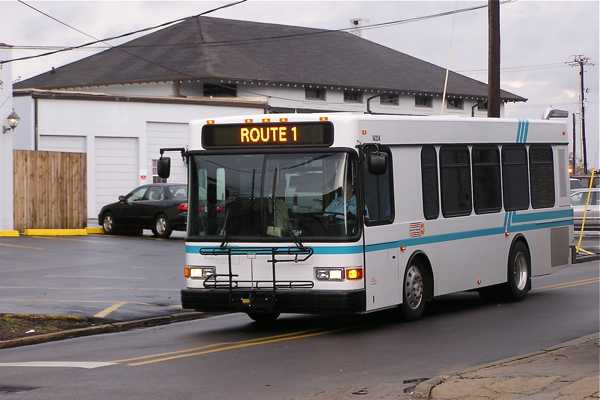 Hub City Transit Bus, Hattiesburg, MS, 2007